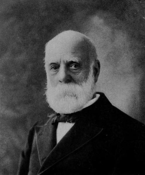 William Shew at 81